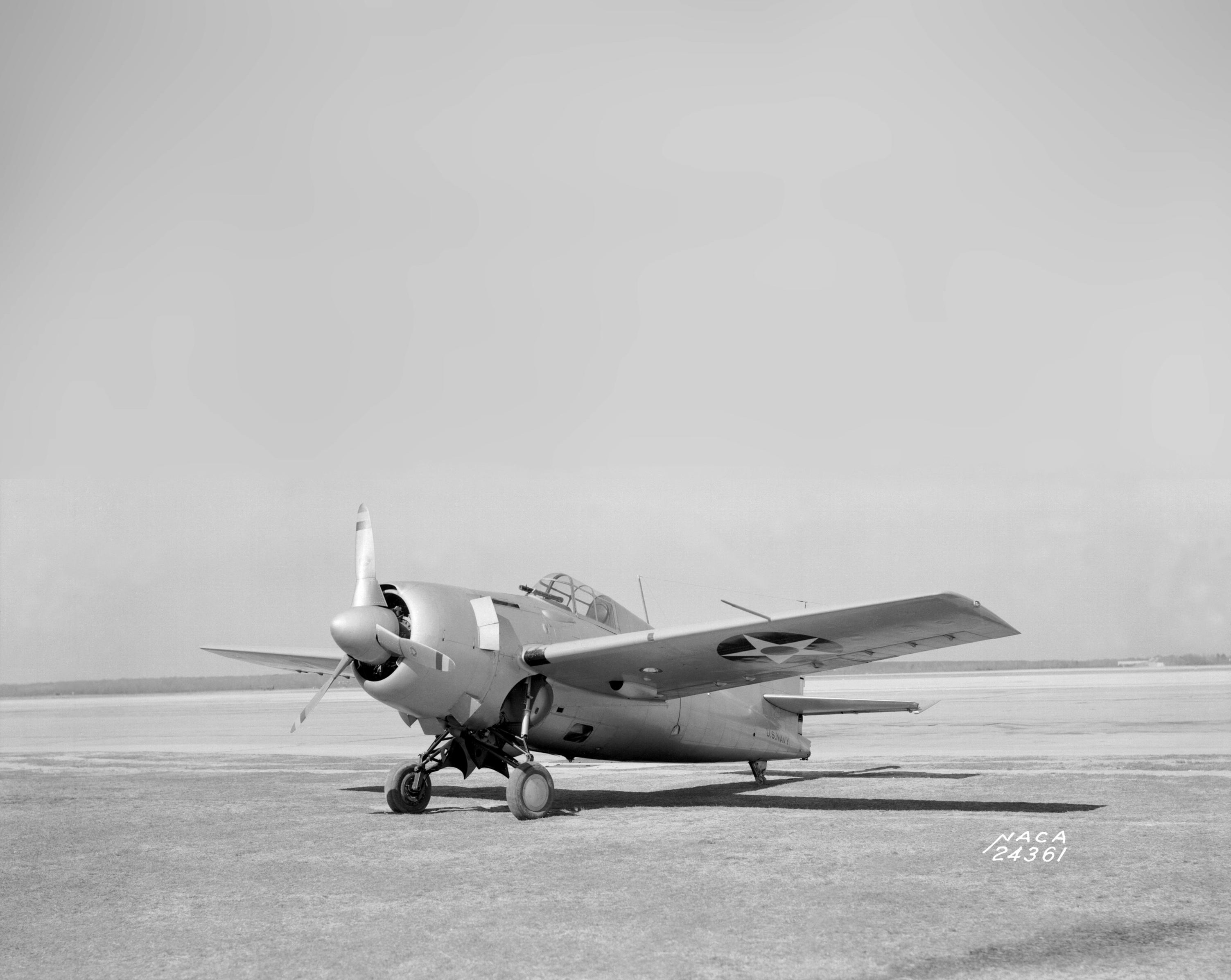 A U.S. Navy Grumman F4F-3 Wildcat at the NACA Langley Research Center on 20 March 1941.